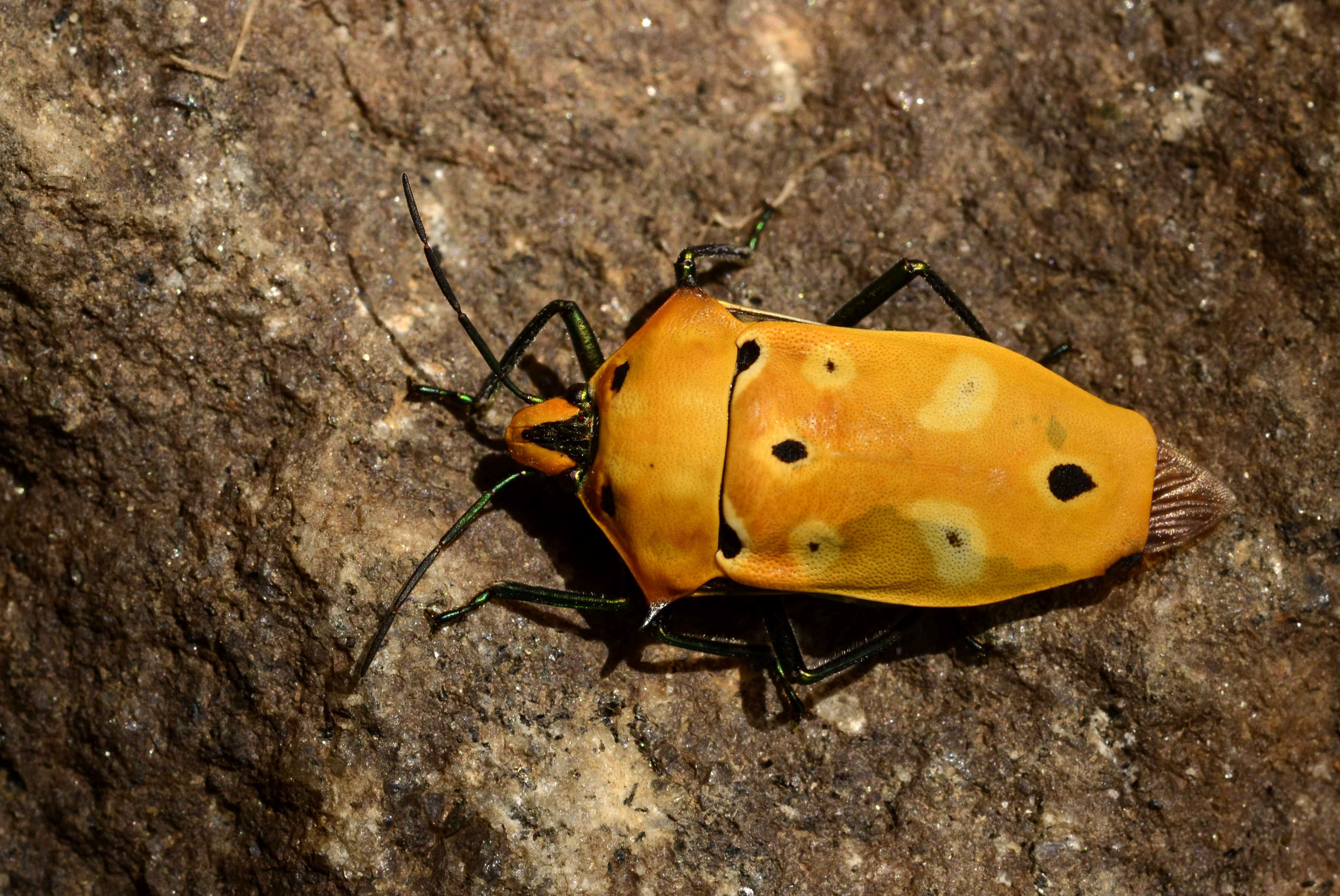 Cantao ocellatus_from Valparai, Anaimalai hills, Southern Western Ghats, India.